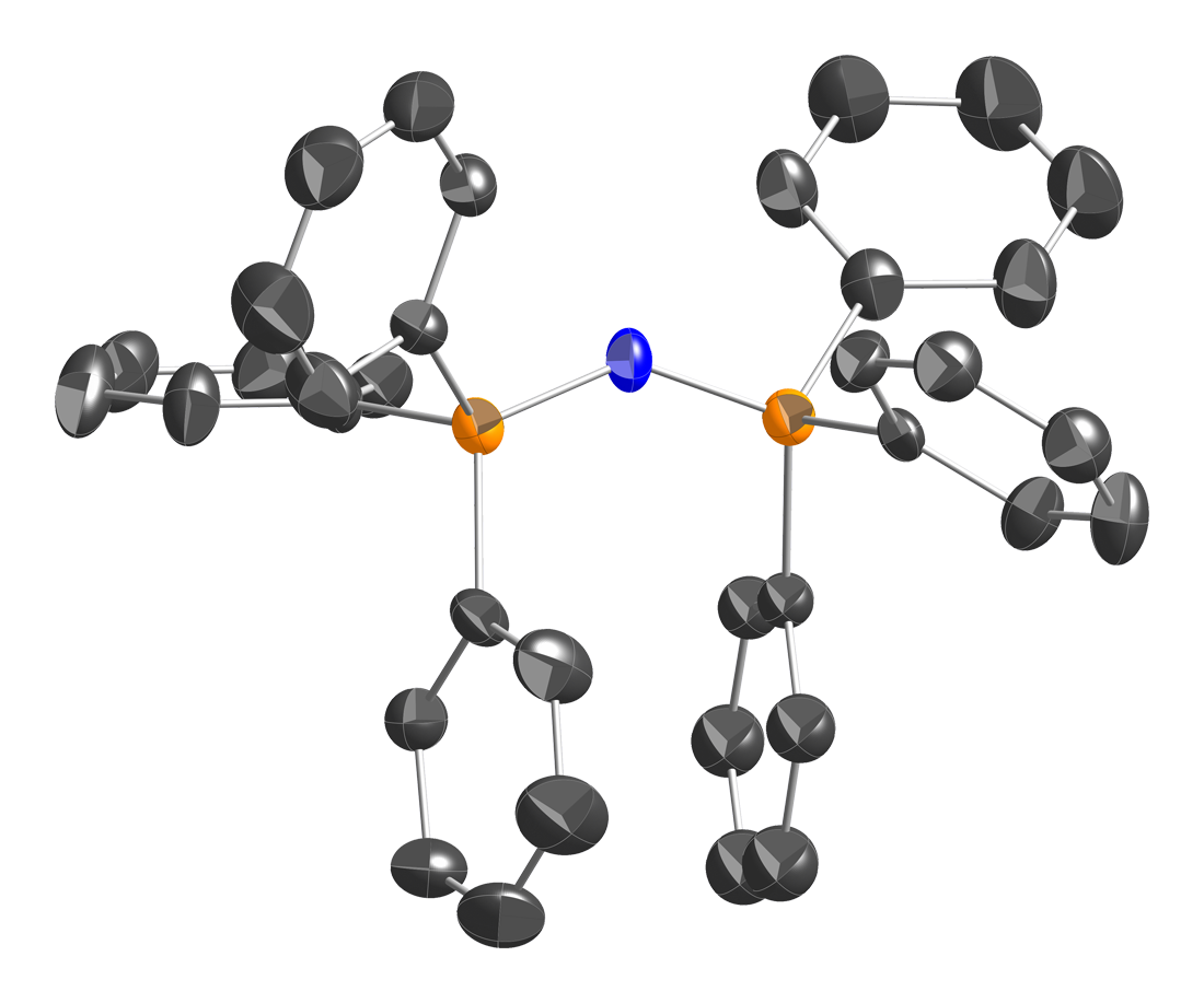 Thermal ellipsoid model the bis(triphenylphosphine)iminium cation, PPN+, [N(PPh3)2]+, [C36H30NP2]+, as found in the crystal structure of bis(triphenylphosphine)iminium docosacarbonyl(μ8-phosphido)octaruthenate chloroform solvate. Single-crystal X-ray diffraction data from Acta Cryst. (2006). E62, m2350-m2351. Model constructed and image generated in CrystalMaker 8.1. Interactive Jmol 3D model available at